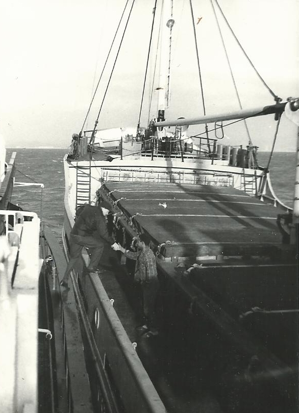 The Swansea Pilot jumps from the "Seamark" onto the German coaster "Katja" coming into Swansea Docks, 12/68. Members of the Swansea University Public Transport Society - of which I was a member - were guests on this ship for an afternoon. Scanned photograph taken with Kowa SET camera.